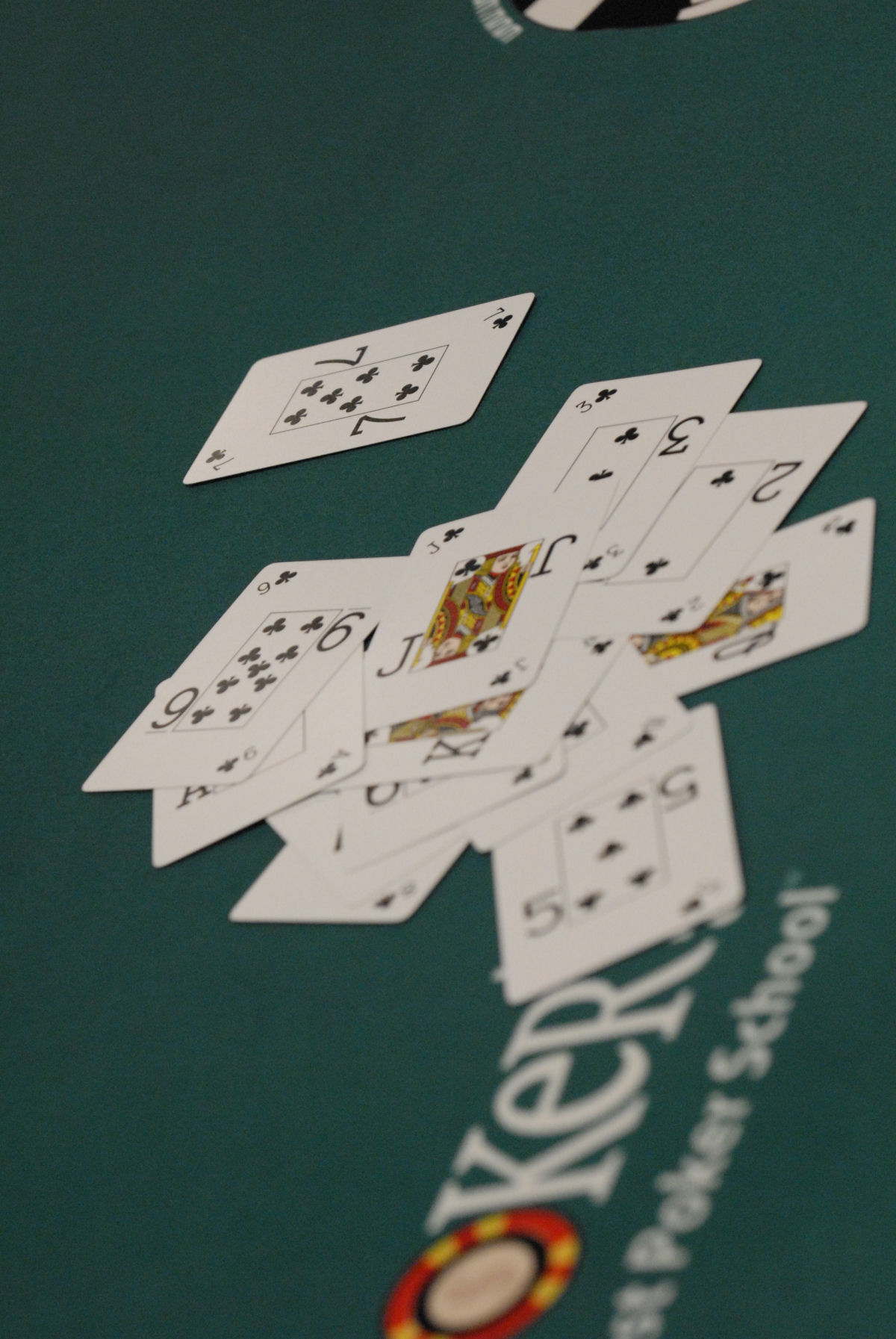 New Cards at 2007 WSOP